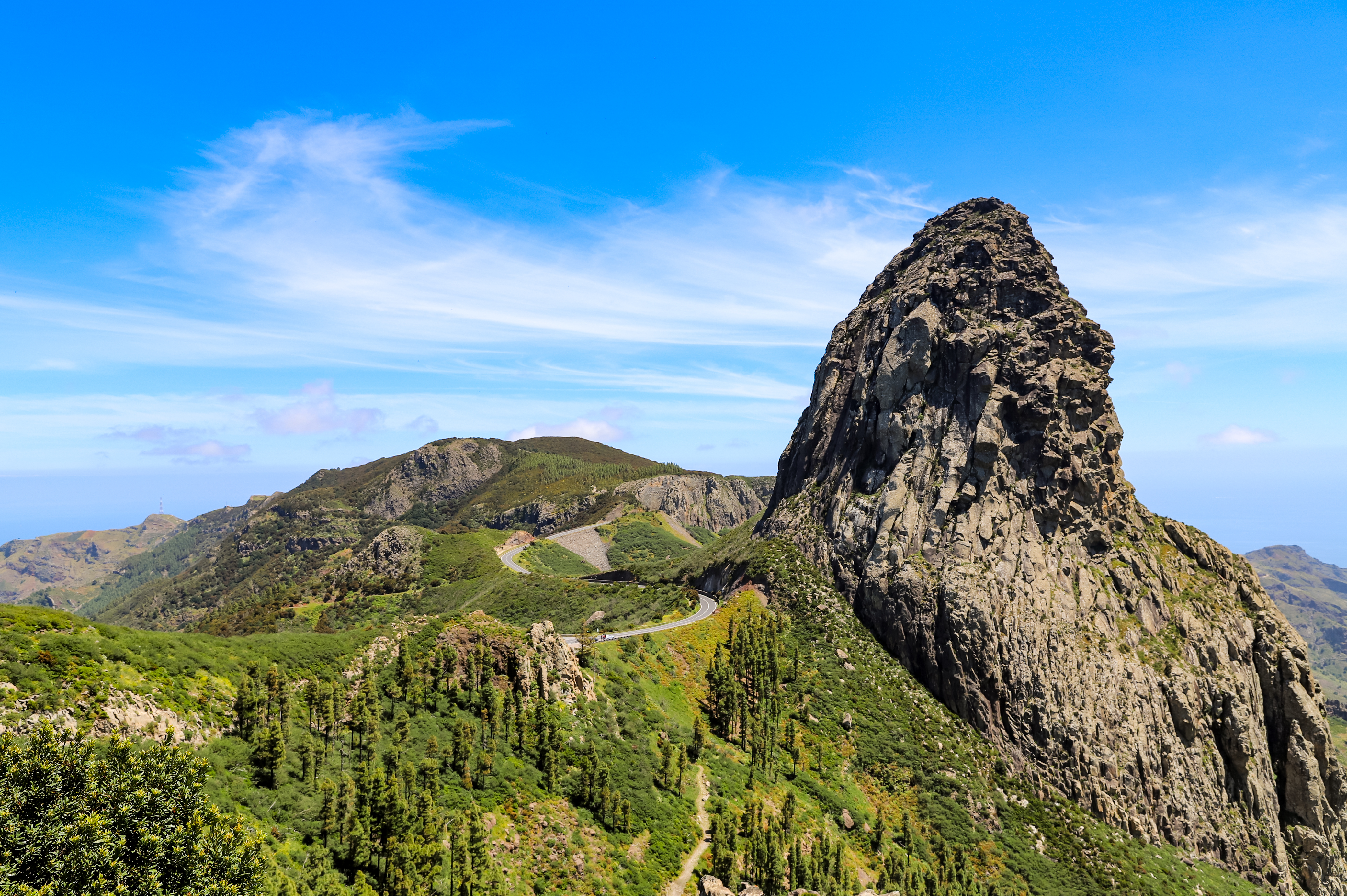 View of Roque de Agando on La Gomera